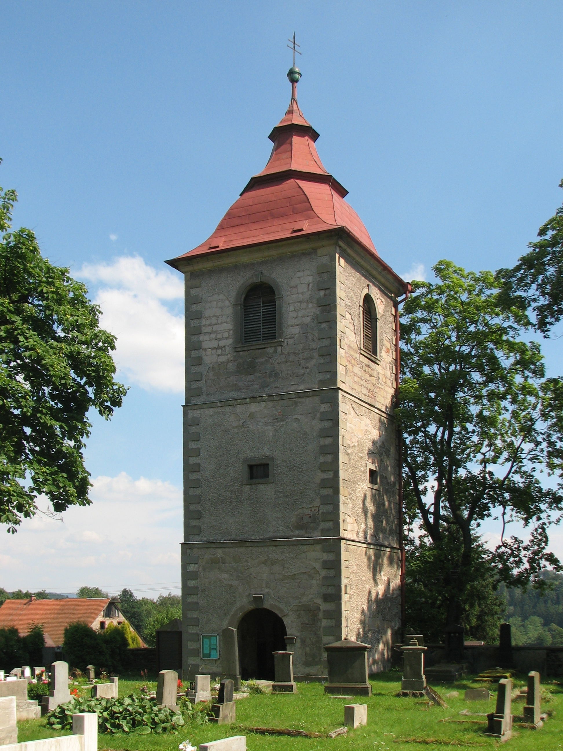 Belfry in Ruprechtice, Náchod District, Czech Republic